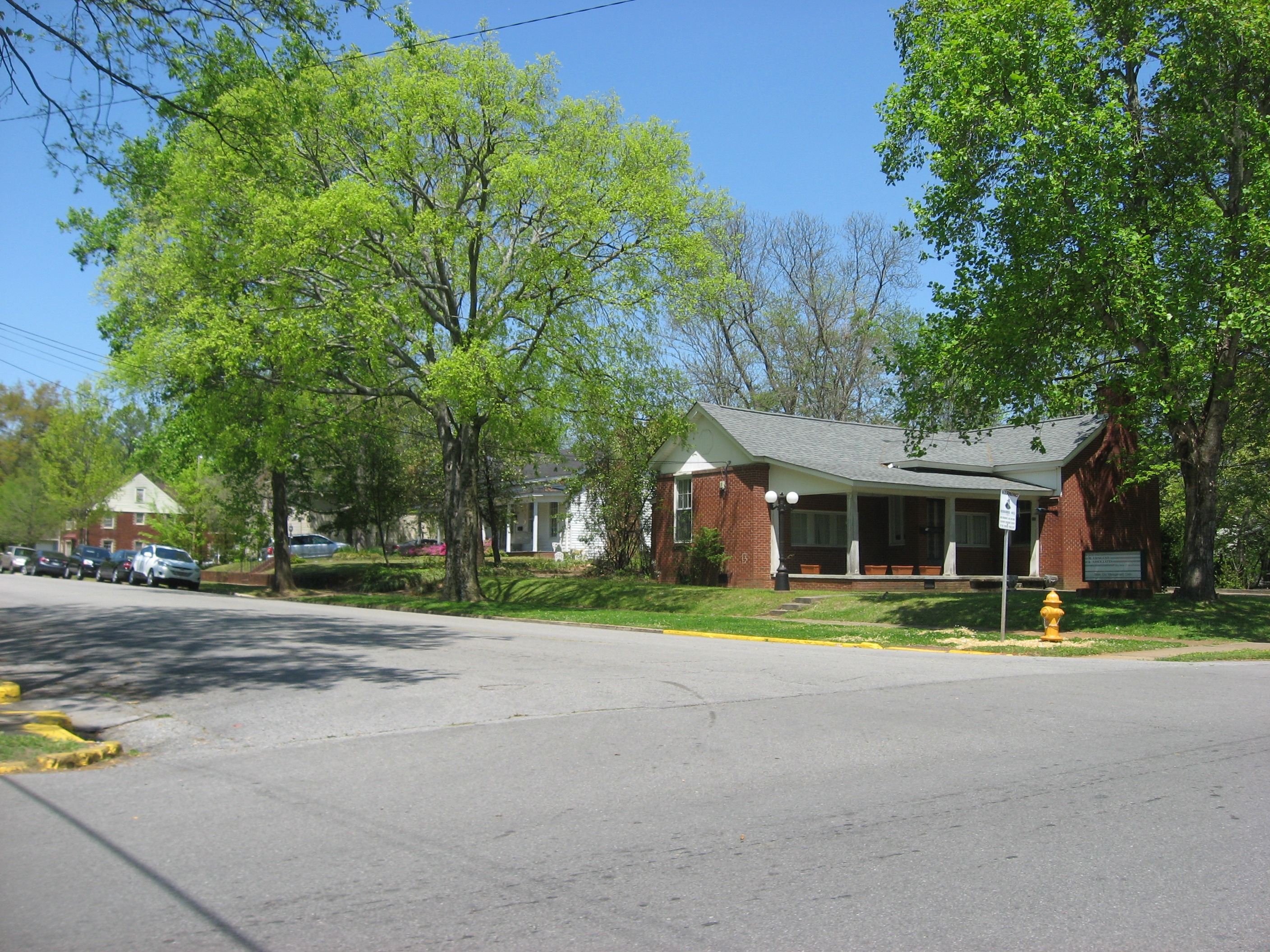 Houses on the eastern side of Poplar Street seen from the Tuscaloosa Street intersection in Florence, Alabama, United States. This block is part of the Walnut Street Historic District, a historic district that is listed on the National Register of Historic Places.